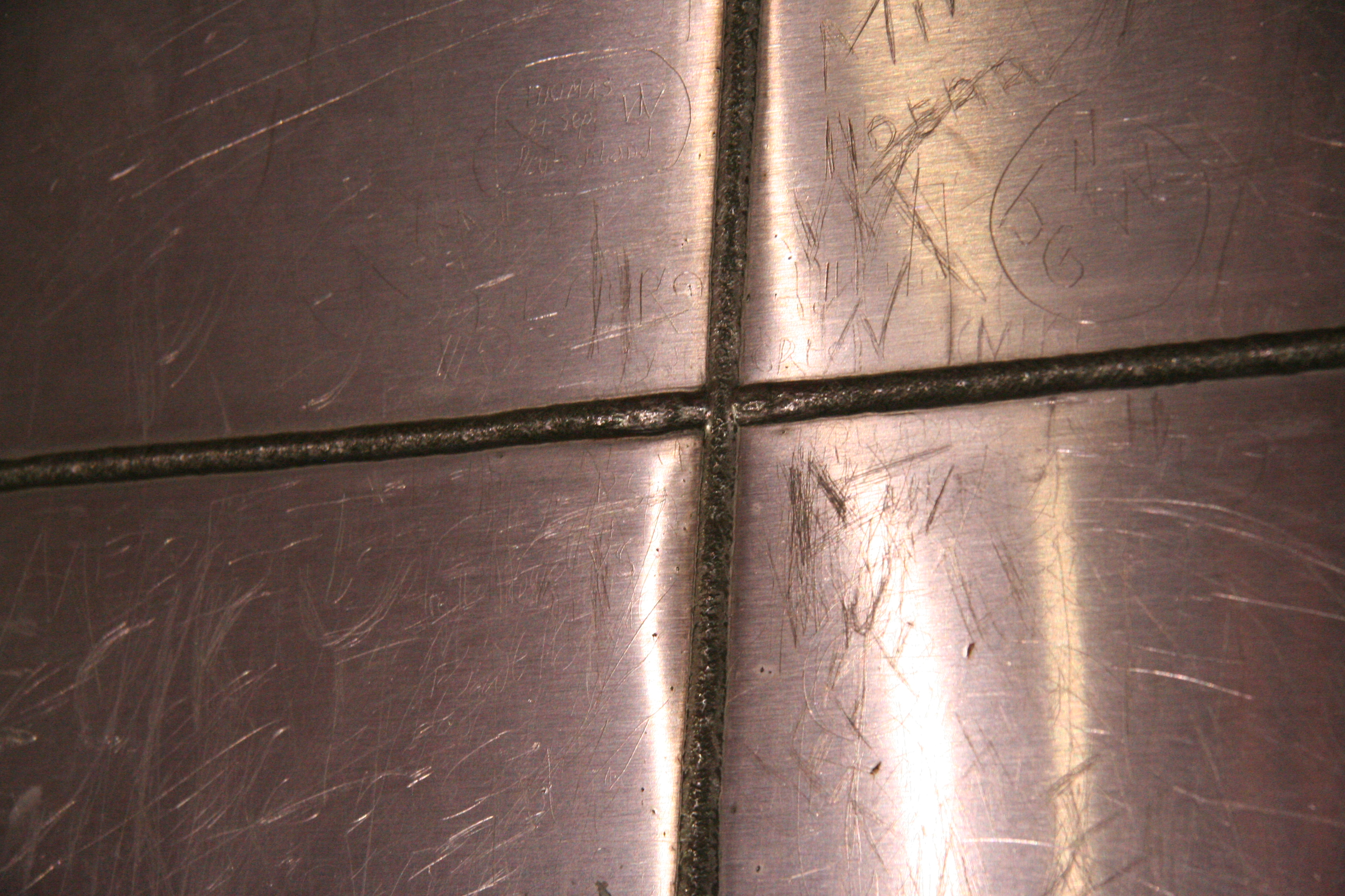 The exterior skin of the St. Louis arch is made of sheets of stainless steel, which is welded together, as shown in this image.